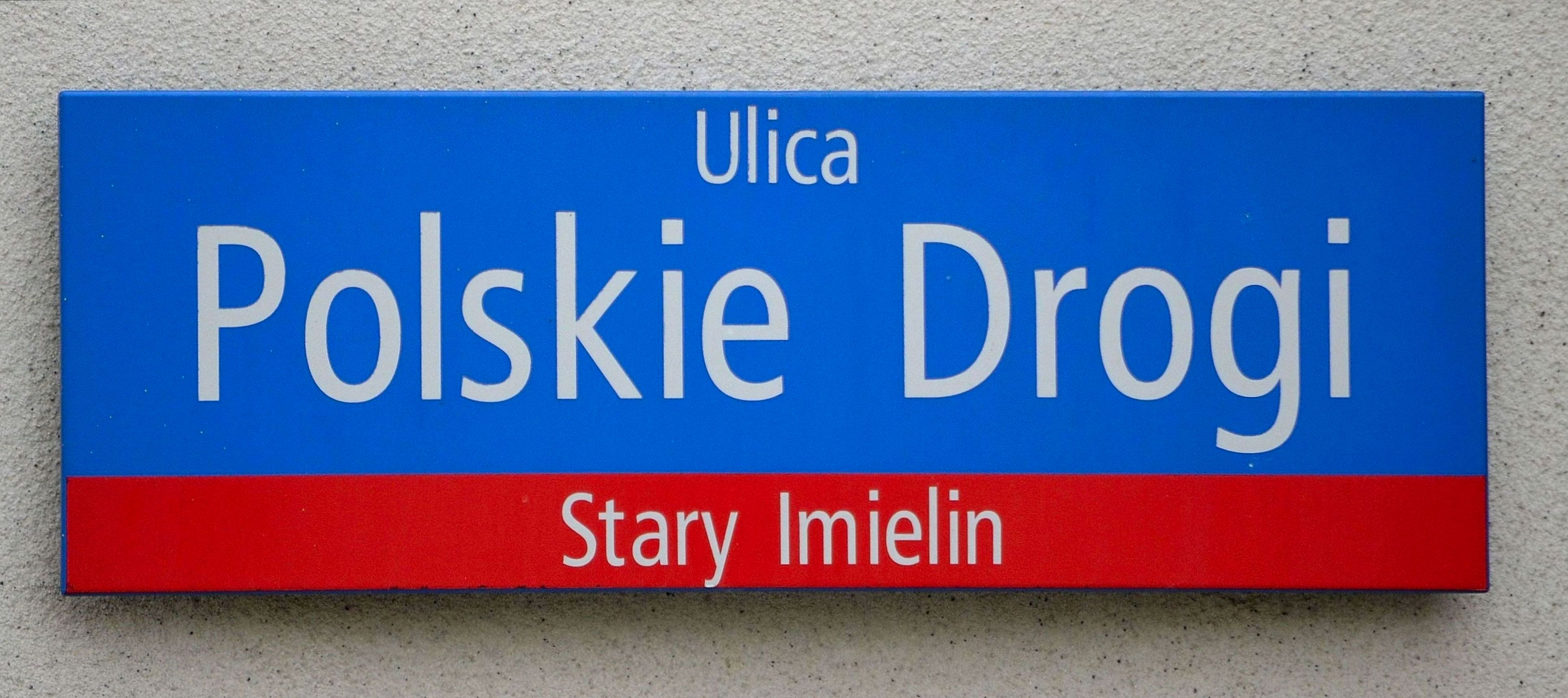 Warsaw City Information street sign on Polskie Drogi Street in Warsaw